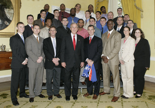 President George W. Bush stands with members of the University of Florida Men’s Basketball Team Thursday, April 6, 2006, during a photo opportunity with the 2005 and 2006 NCAA Sports Champions at the White House. White House photo by Eric Draper